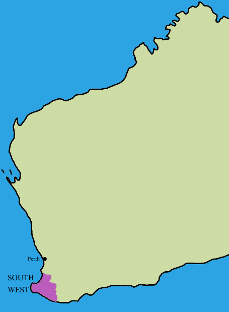 South West region in Western Australia, I made the image